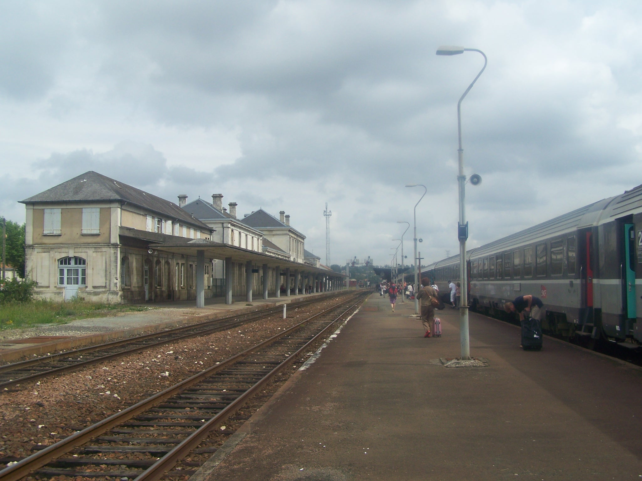 Platforms and tracks of Saintes station, in Charente-Maritime, France. On the right, a mainline train from Bordeaux and bound for Nantes.